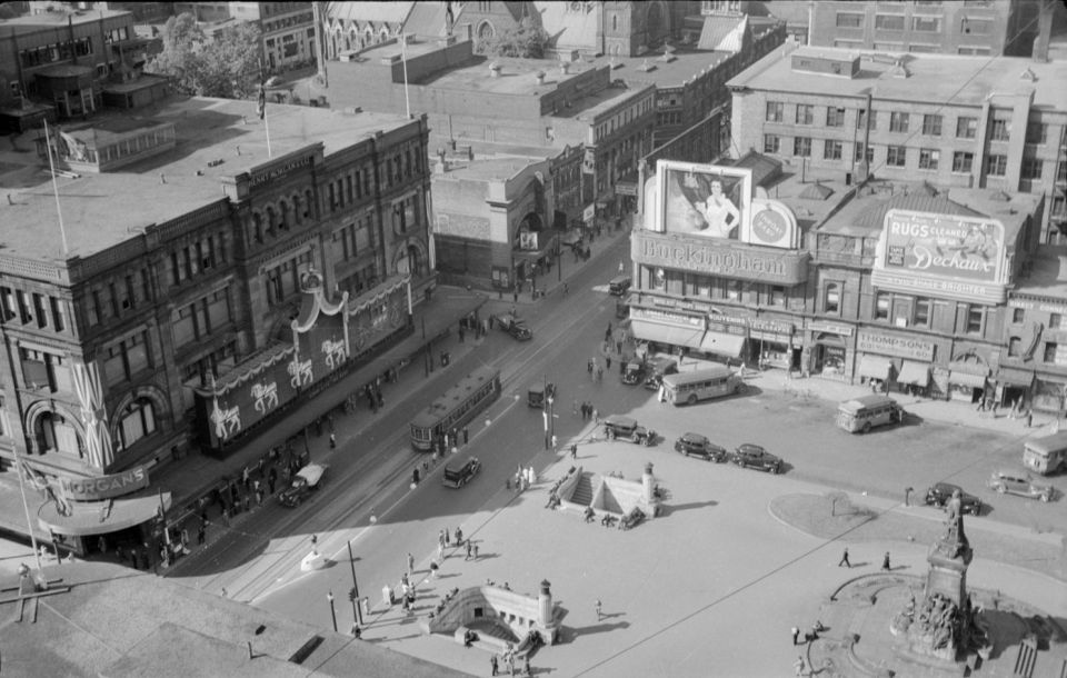 We see, from the 17th floor of the Tower of the University (1255 University Street), the store "Henry Morgan and Co" (the Bay), on the corner of Phillips Square and St. Catherine Street, with a bird's eye view of much of the Phillips Square. We spot sanitation known under the name of "Camillian" and the statue of Edward VII. We also note a tram, automobiles, trucks, passersby, billboards, the "Canadian National Telegraph" and the parked bus.